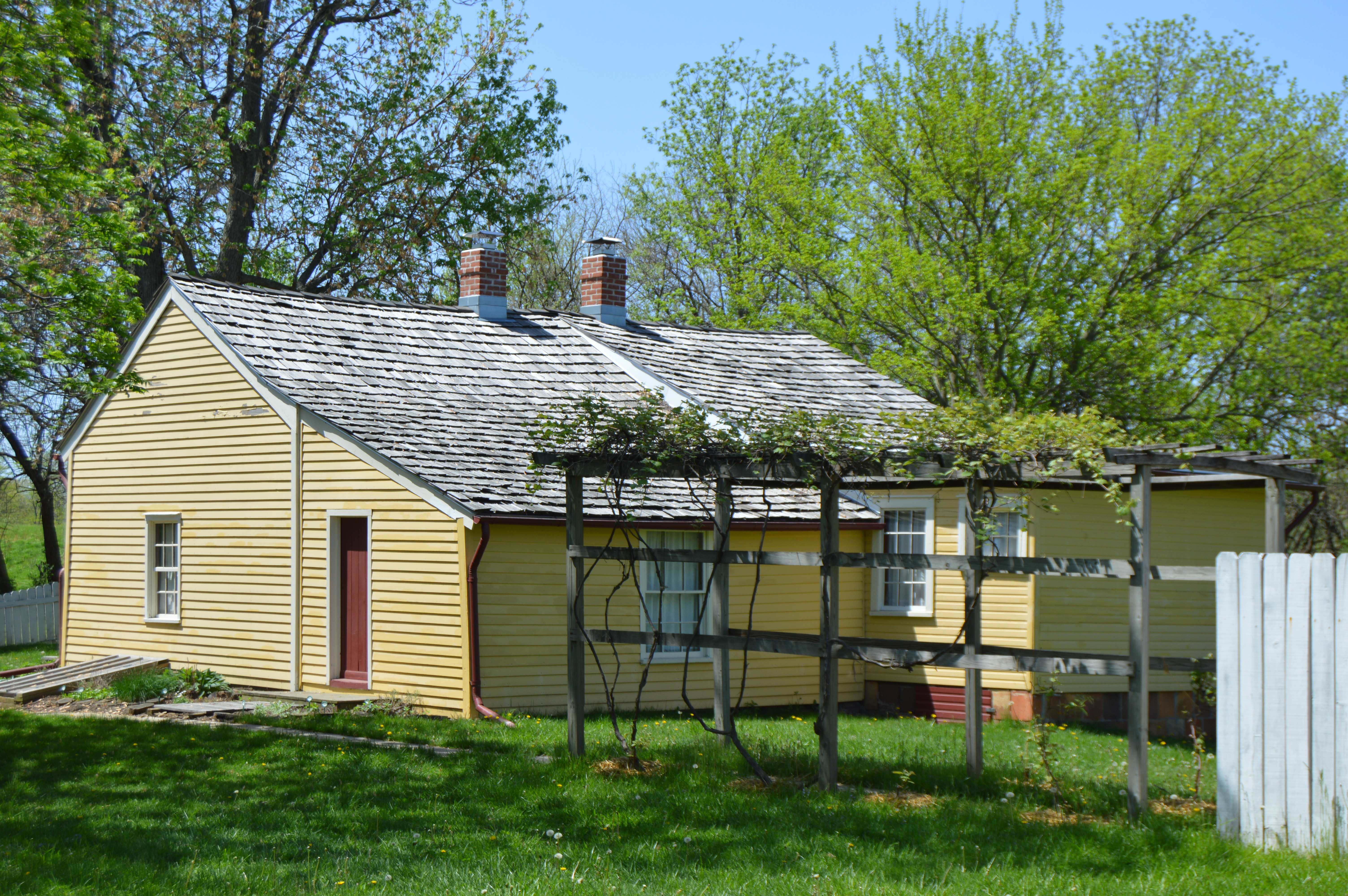 Rear and eastern side of the Trobaugh-Good House, located at the Rock Springs Conservation Area southwest of Decatur in Decatur Township, Macon County, Illinois, United States. Built in 1847, it is listed on the National Register of Historic Places.